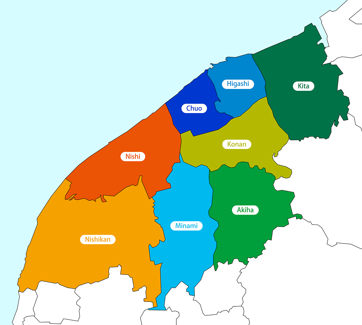 Wards of Niigata City.